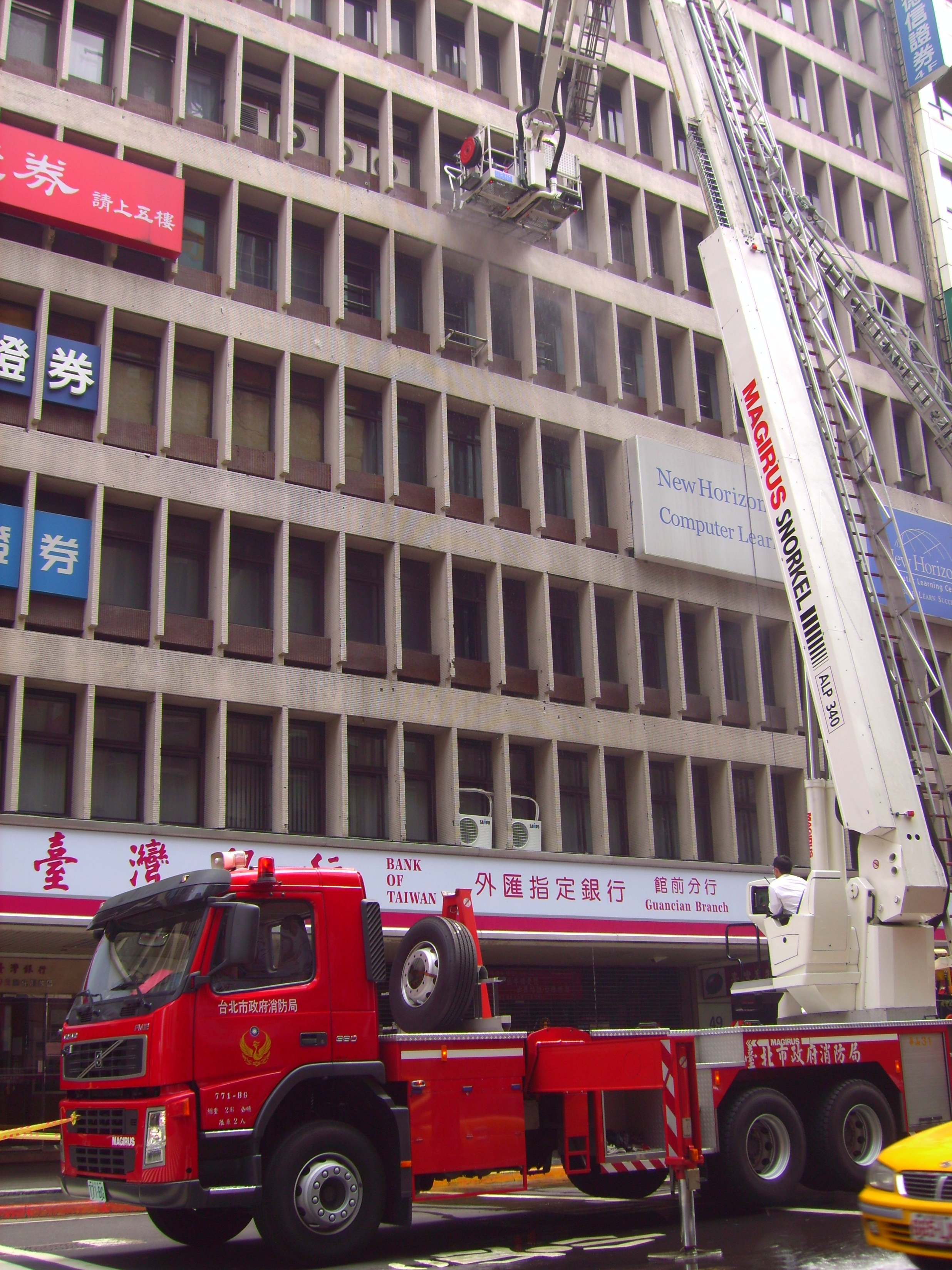 Taipei City Fire Department turntable ladders fire engine.